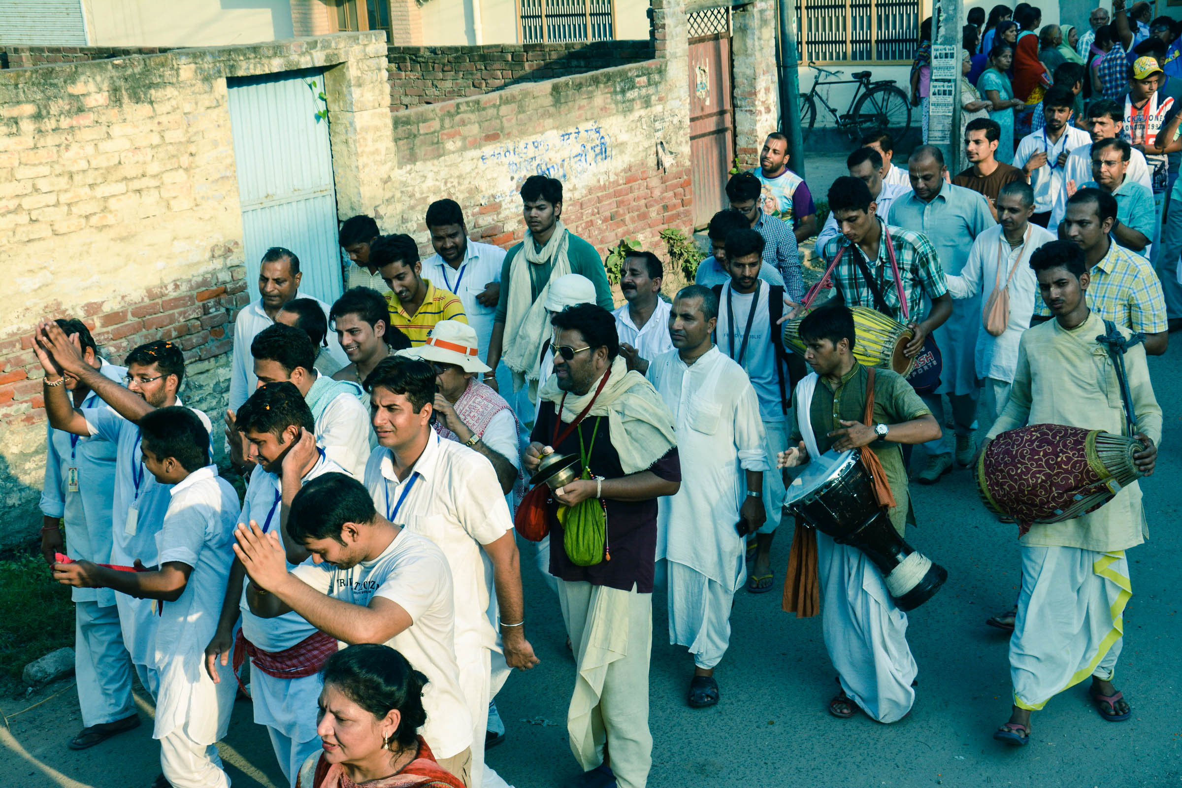 Bhajan Mandali At Nabha Ratha Yatra. Singing Jai Jagannath and Hare Krishna Hari Bol Hari Bol